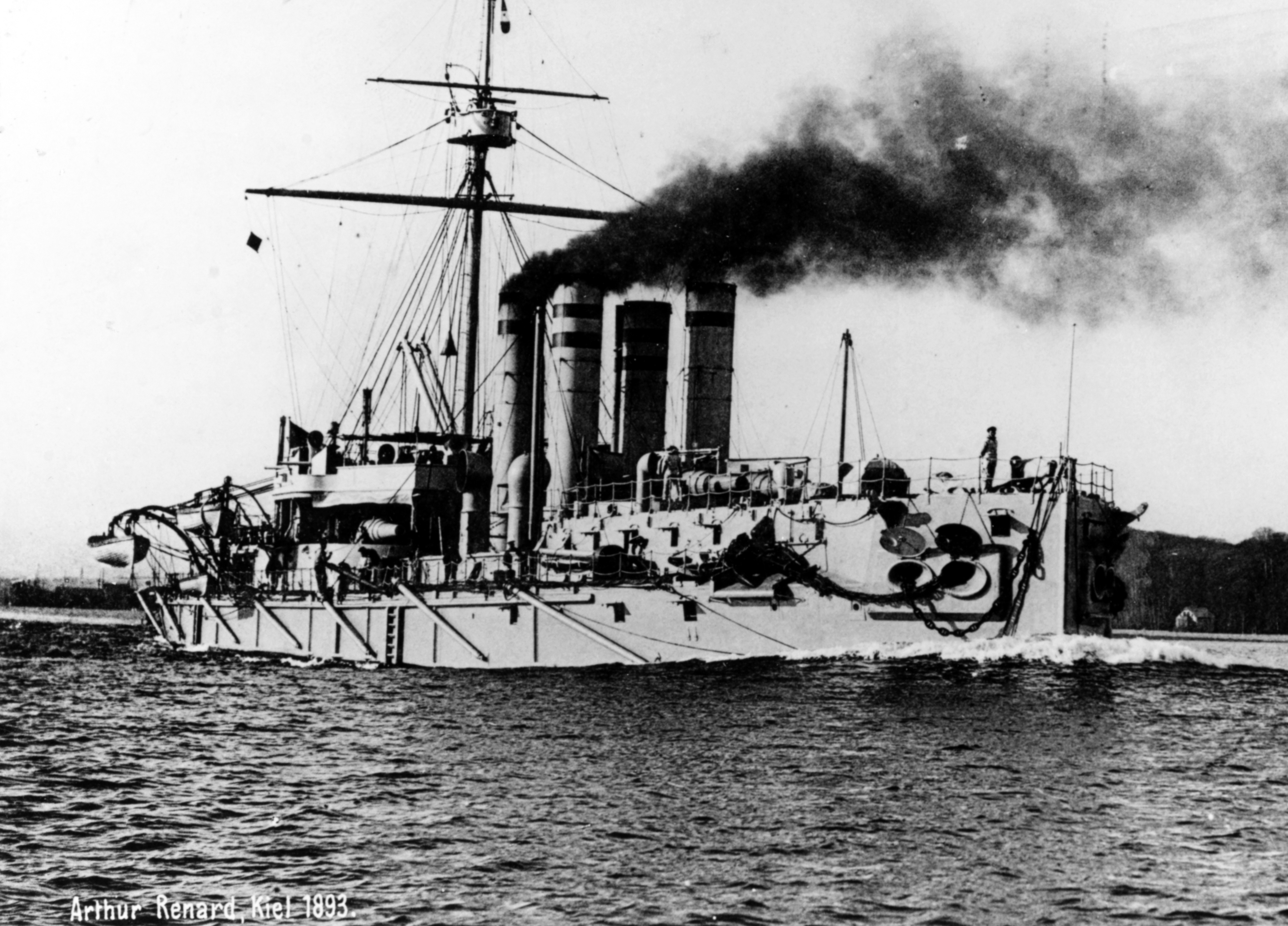 BAYERN (German Battleship, 1878-1919) Caption: Photographed by Arthur Renard of Kiel in a photograph dated 1893; however, these ships are believed to have been painted black until 1895. BAYERN was extensively modified during 1895-1898 by Schichau of Danzig.